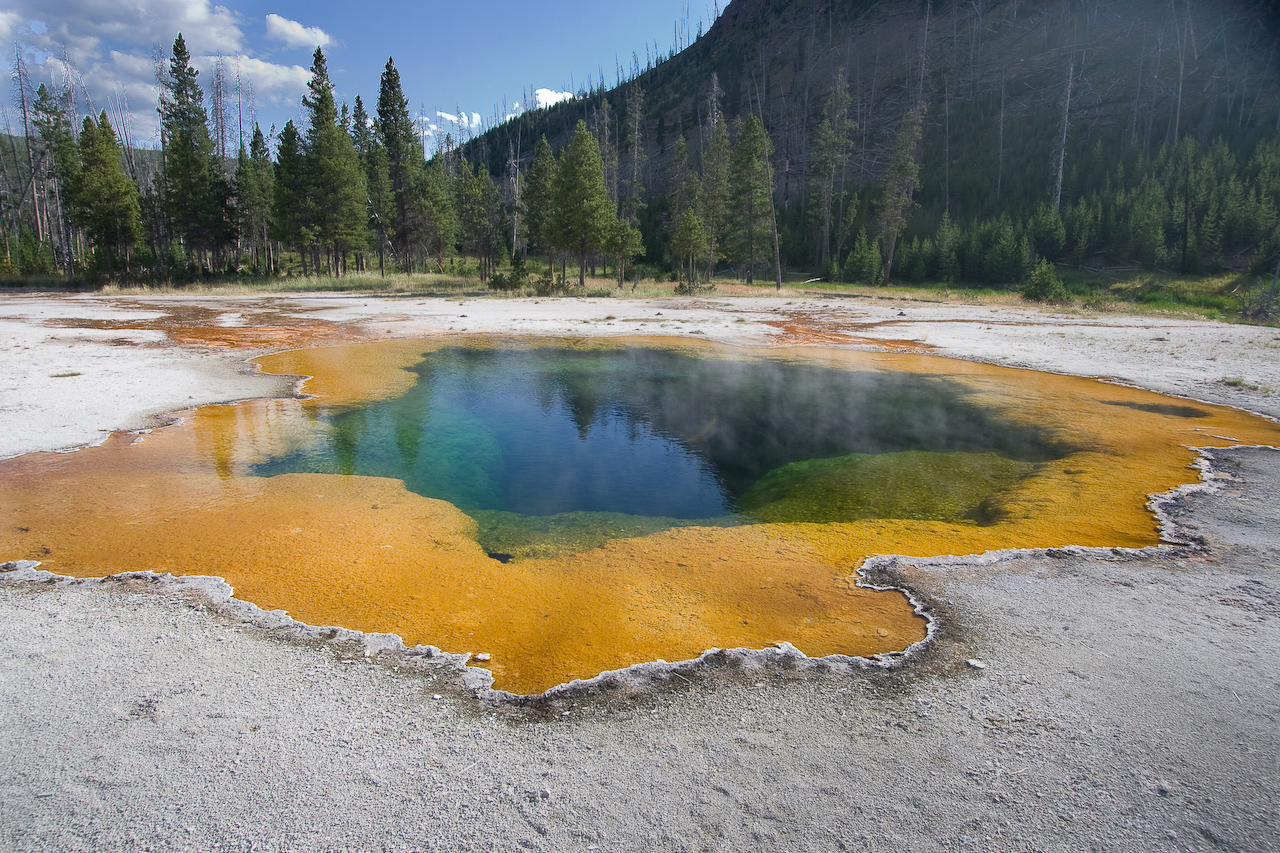 One of the most beautiful pool IMHO